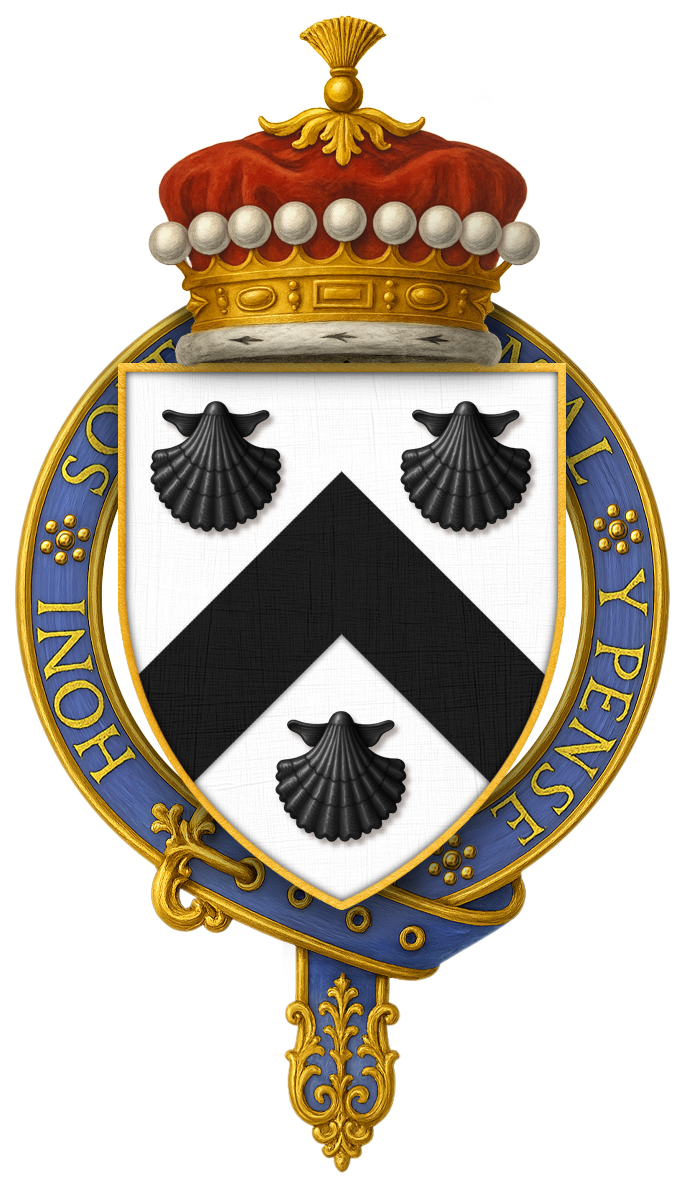 Coat of Arms of Charles Lyttelton, 10th Viscount Cobham, KG, GCMG, GCVO, TD, PC, DL